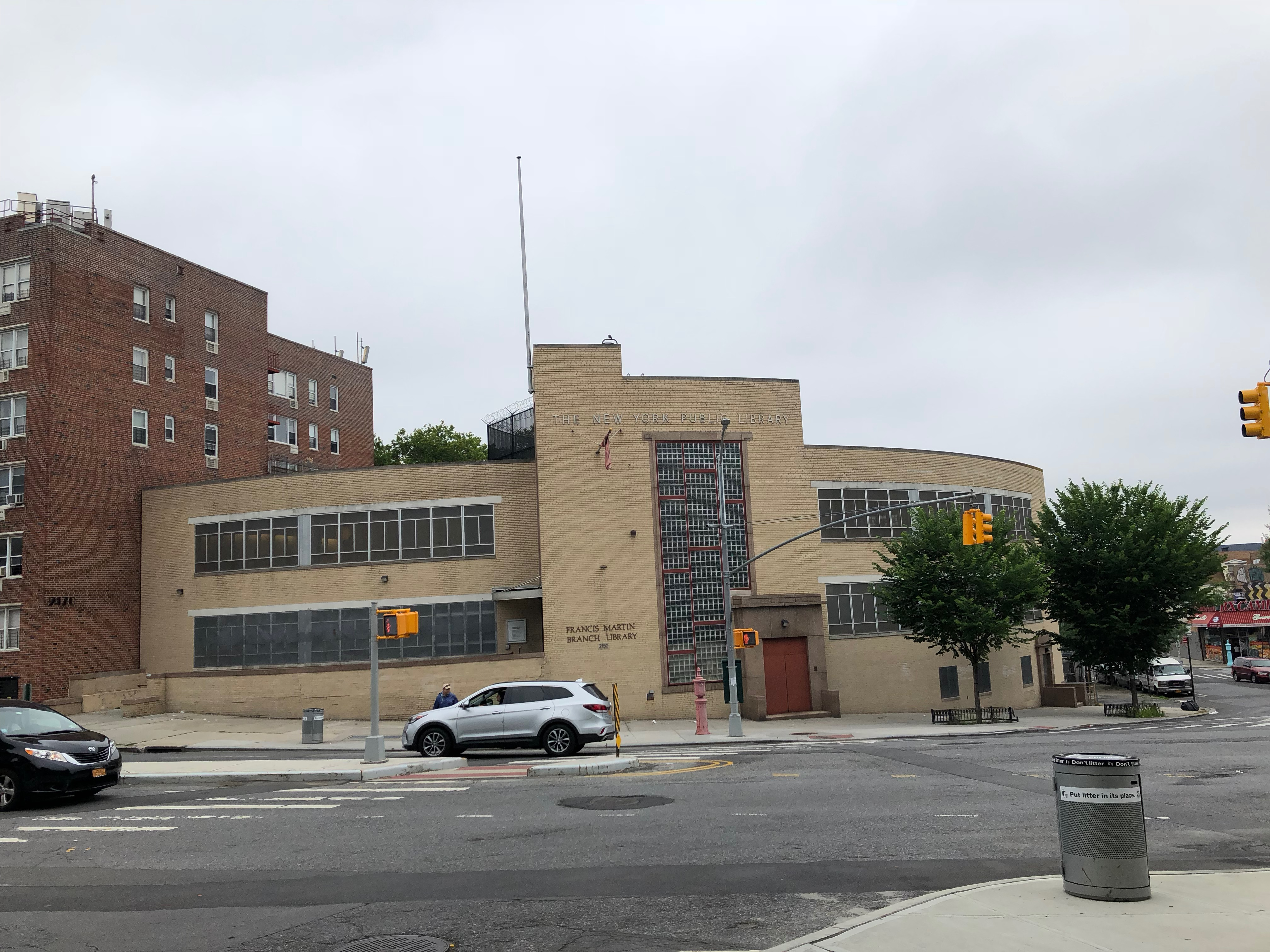 NNew York Public Library Bronx Francis W. Martin Branch Library in University Heights, The Bronx